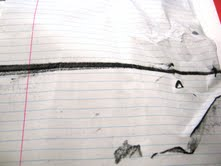 This piece of paper got jammed in the cartridge and this looked like it when I took it out.